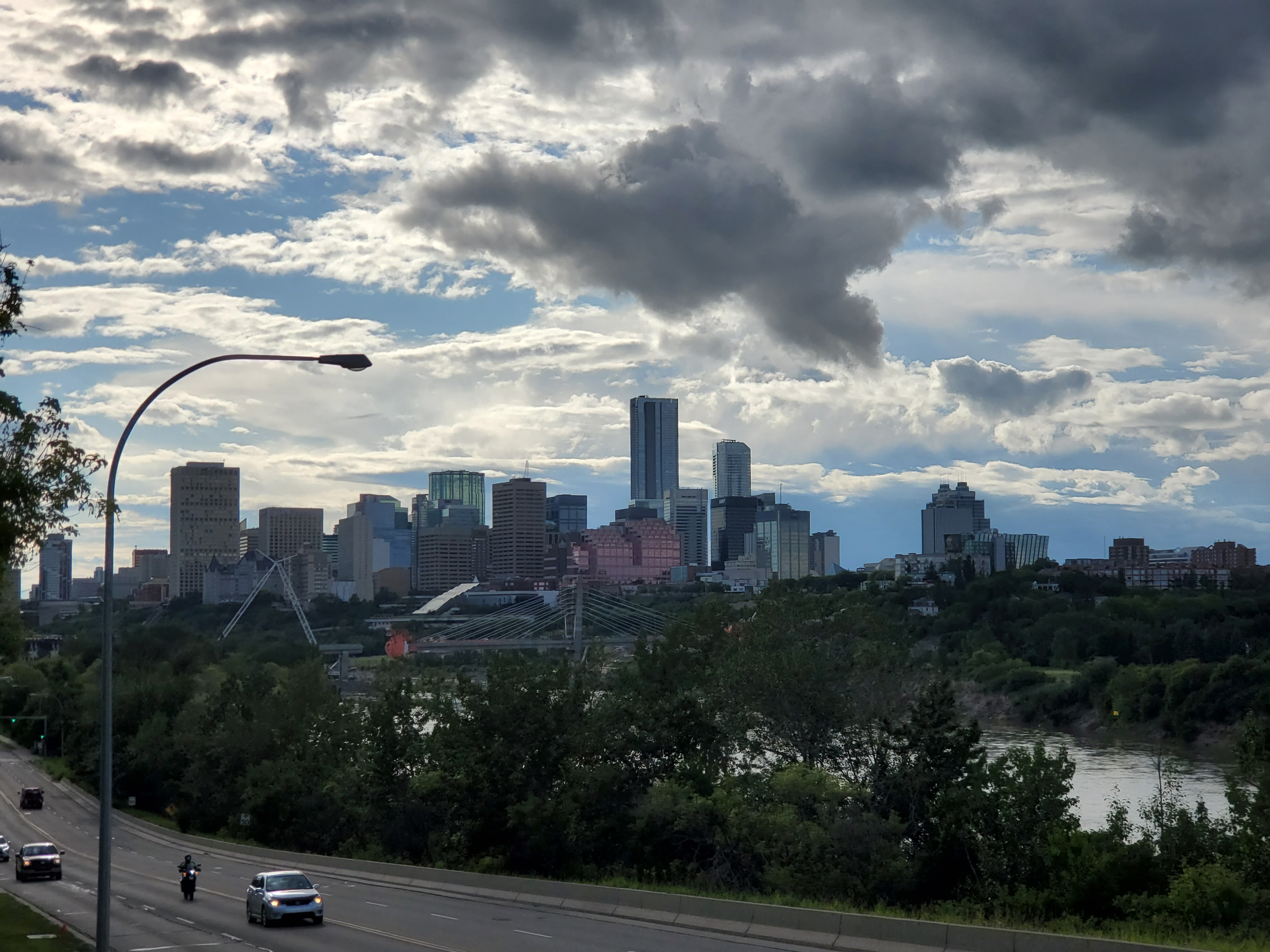 Edmonton's downtown business district in July 2020, seen from 98th Avenue